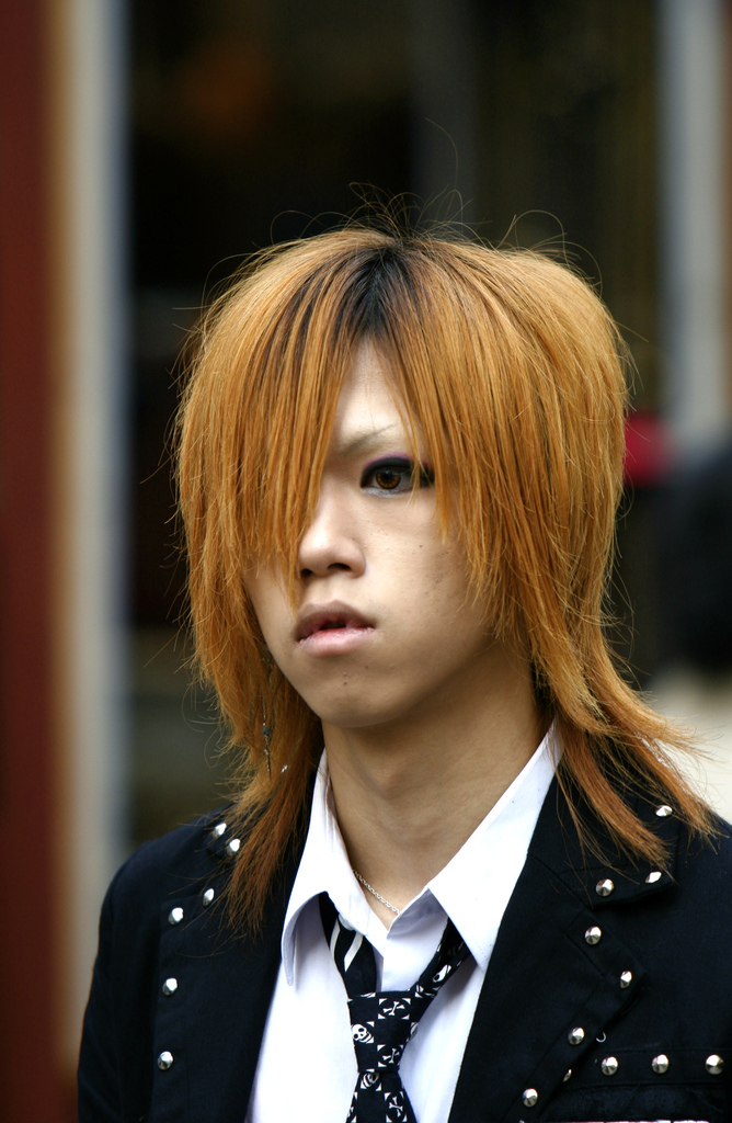 A fashionable boy in Harajuku,Tokyo,Japan.